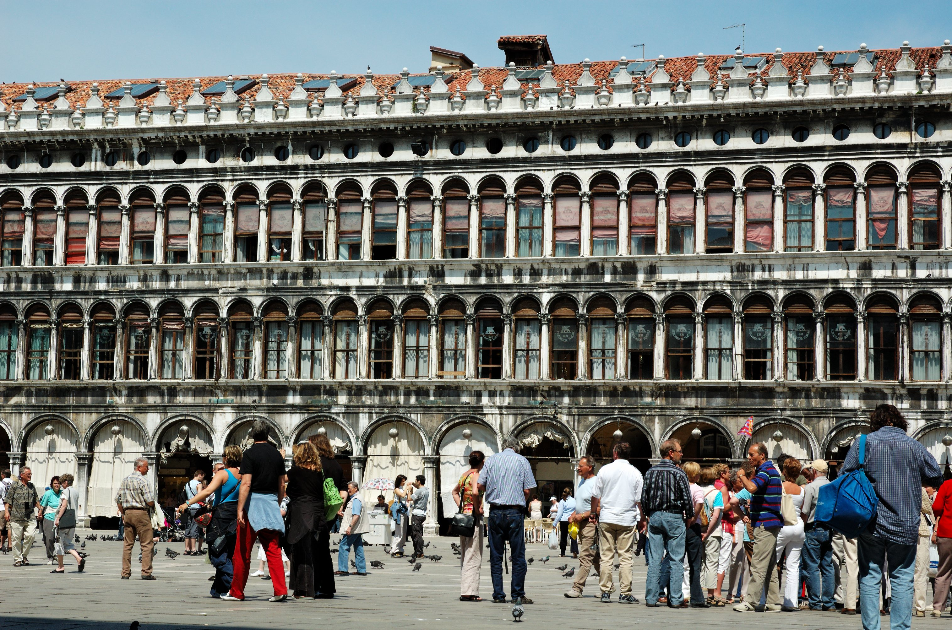 Piazza San Marco, Venice, with Procuratie Vecchie in the background.